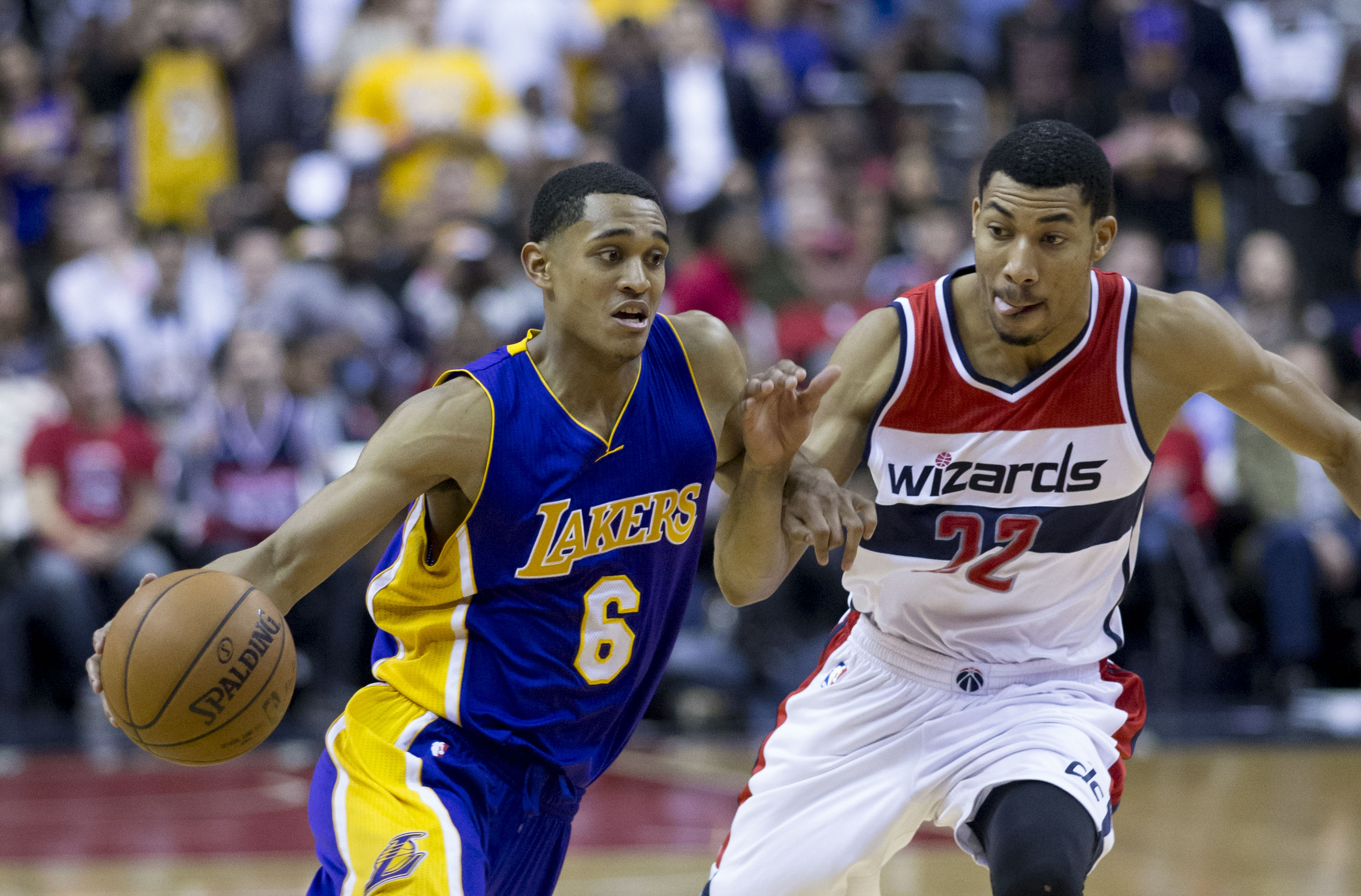 Jordan Clarkson of Los Angeles Lakers dribbles against Otto Porter of Washington Wizards